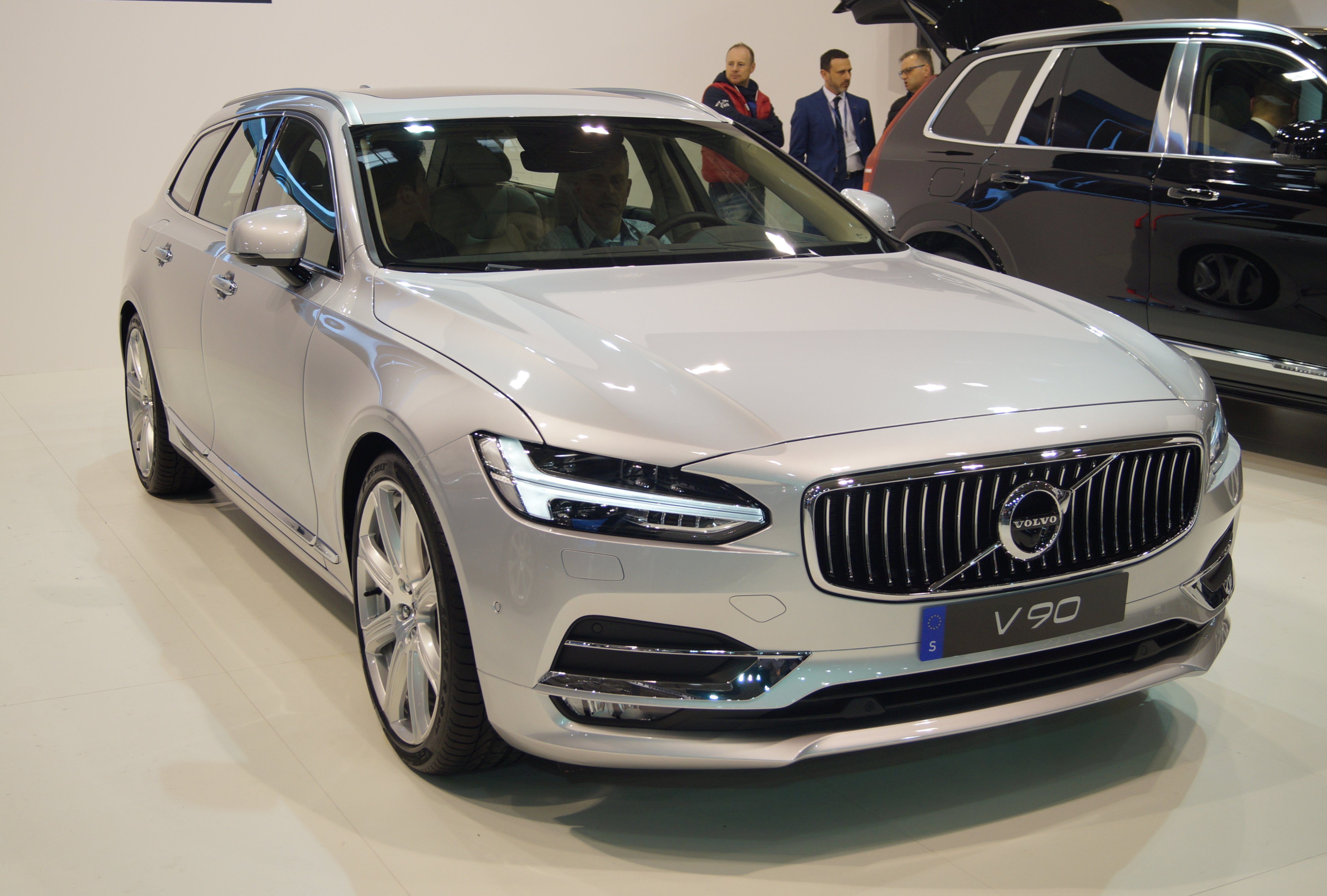 The making of this document was supported by Wikimedia Polska Association, within Wikigrant no. WG 2016-10. Przód Volvo V90 na Motor Show Poznań 2016